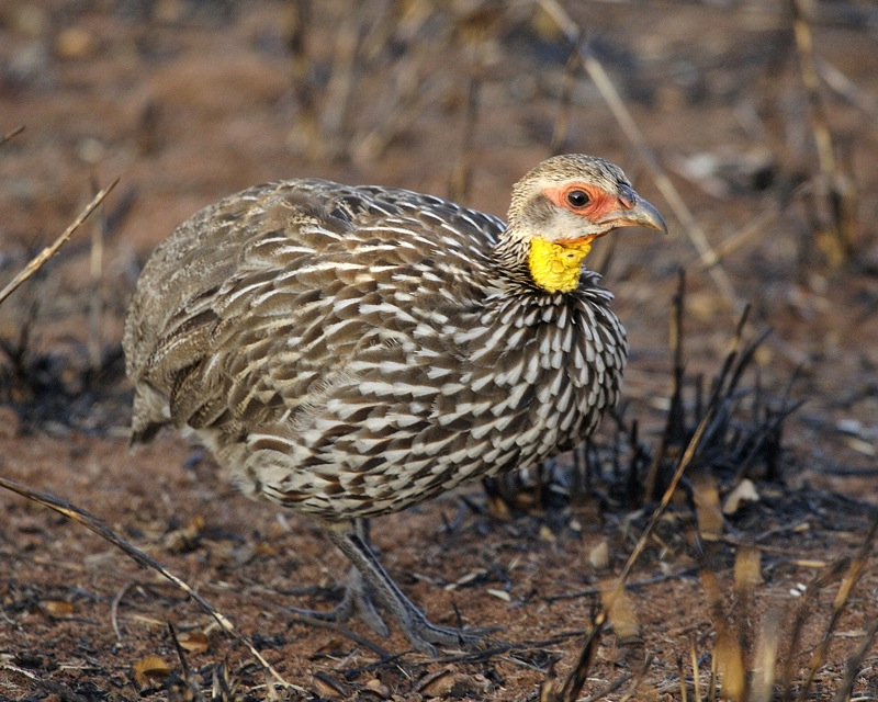 Yellow-necked Spurfowl Pternistis leucoscepus (Swahili: Kereng'ende Shingo-njano; syn. Francolinus leucoscepus). Tsavo East, Kenya, 26 August 2008.